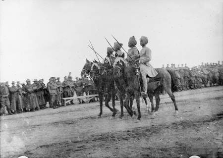 North Africa: Egypt, North Egypt, Tel el Kebir The team of Hyderabad Lancers that won the tent pegging event at the Anzac Day sports carnival parade on horseback before the spectators. Their horses are wearing fly veils.